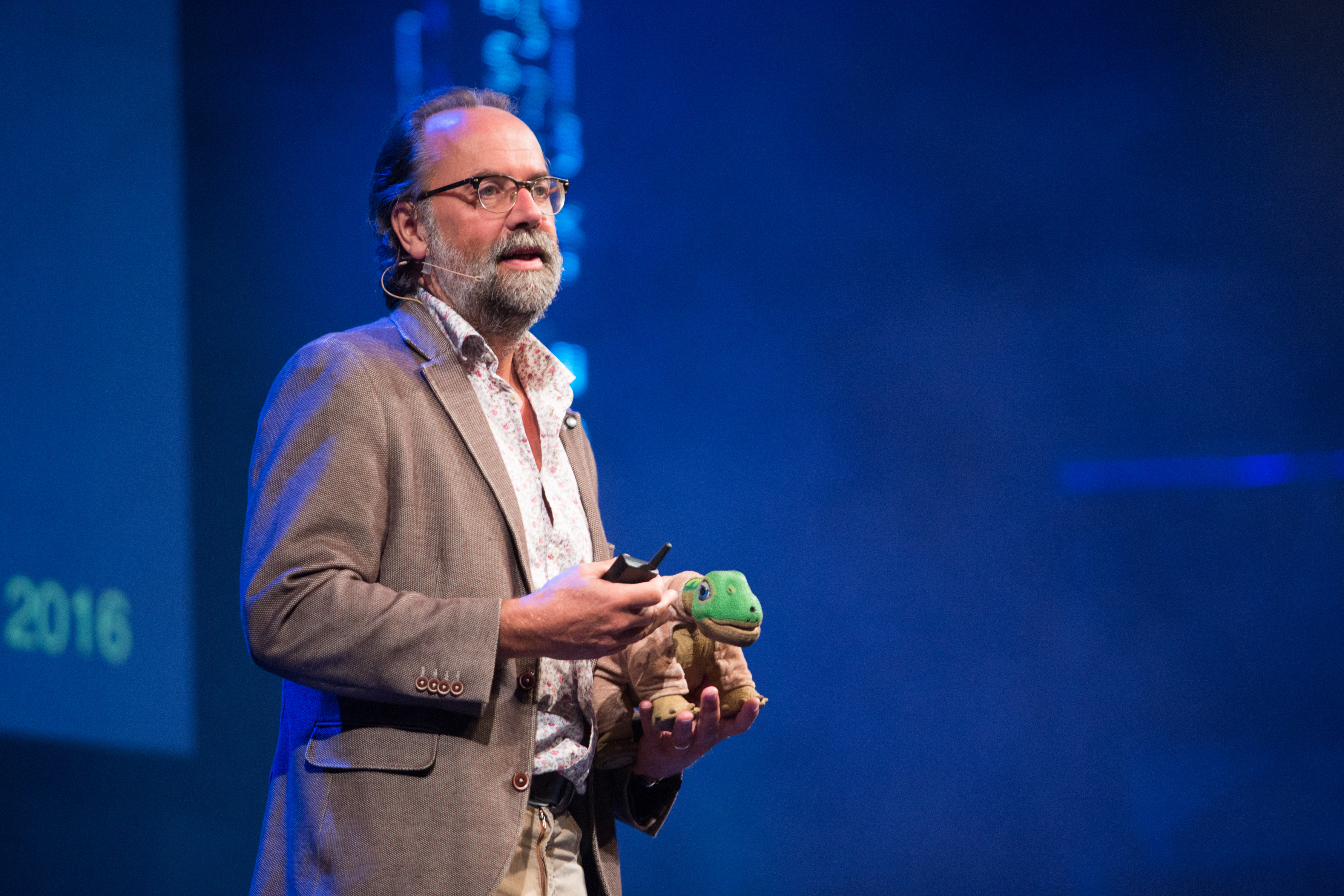 The SingularityU The Netherlands Summit 2016 took place on September 12 & 13 in Amsterdam, The Netherlands. The Netherlands Summit was aimed at bringing awareness about exponential technologies and their impact on business and policy. The theme of the summit was "Reality Check - Fast-Forward into our Future". For more information